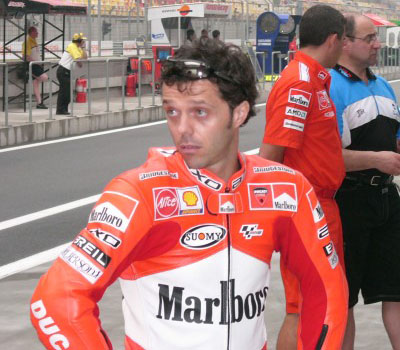 Italian motorcycle road racer Loris Capirossi, 2005.